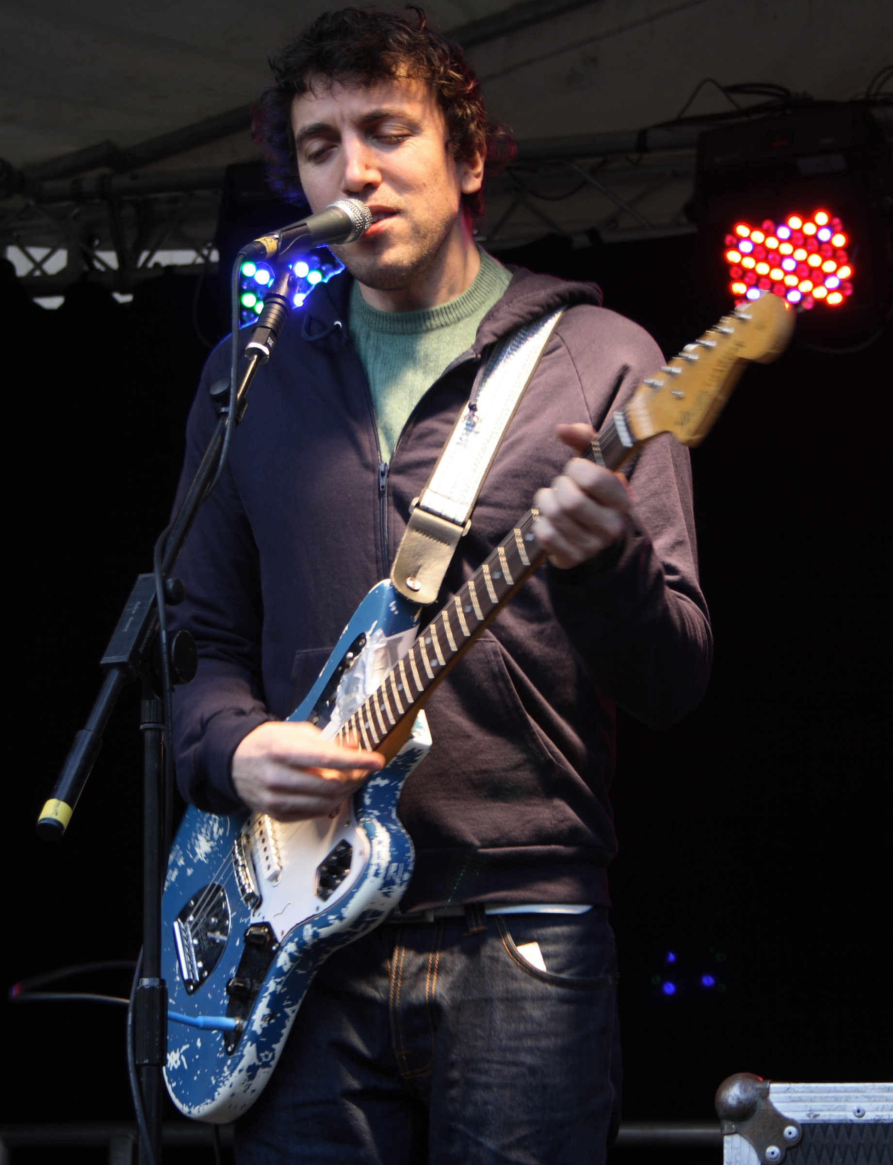 David Kitt, Irish musician, in Covent Garden on St Patrick's Day 2007